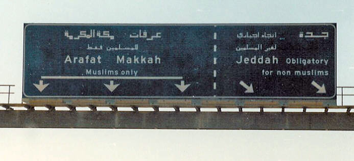 Road signs in Saudi Arabia. The small Arabic writing reads للمسلمين فقط lil-muslimīn faqat "For Muslims only" and لغير المسلمين lighayr al-muslimīn "For non-Muslims"...